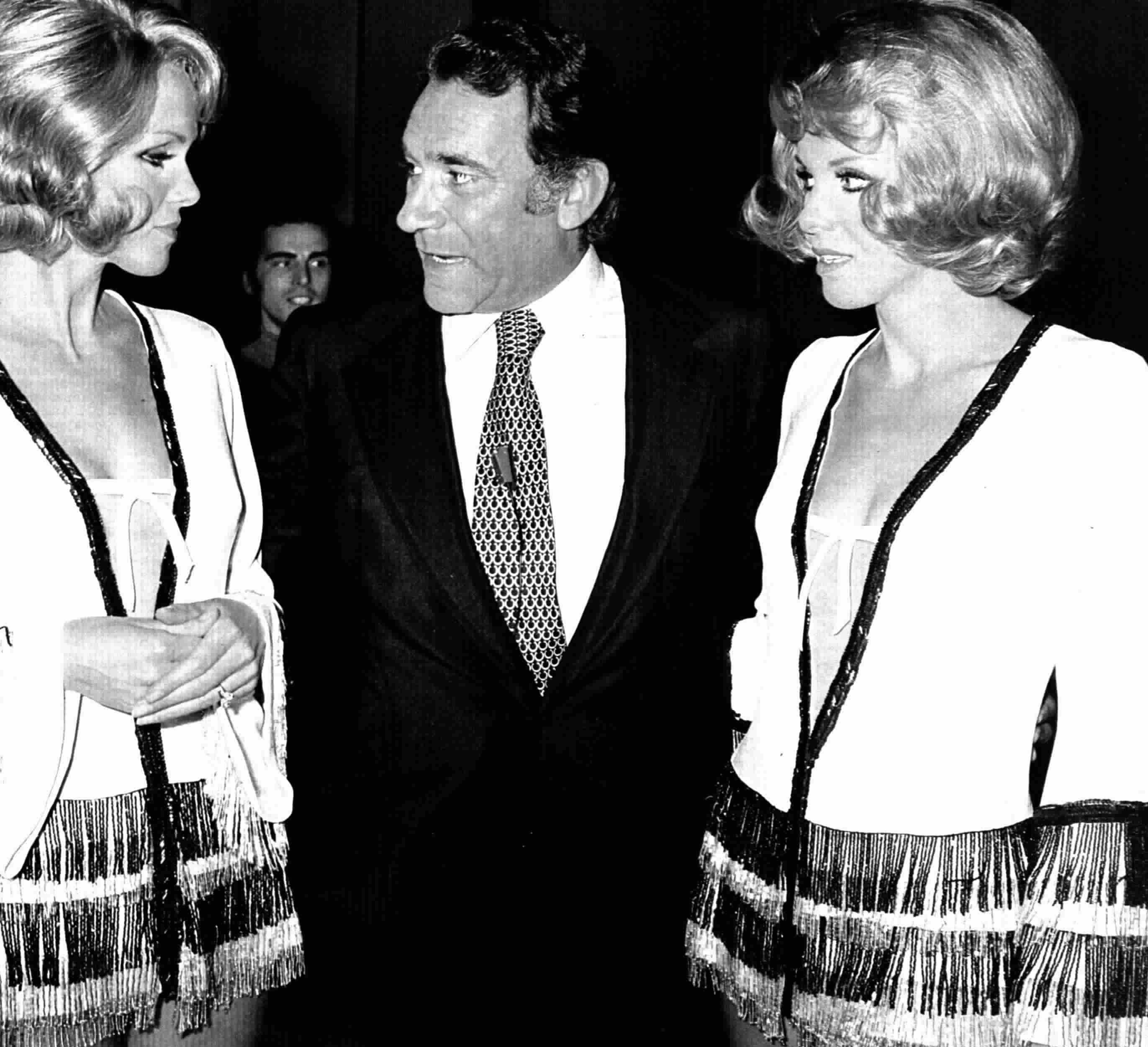 Italian actor Alberto Lupo with Kessler Twins, Teatro 10, Rome.